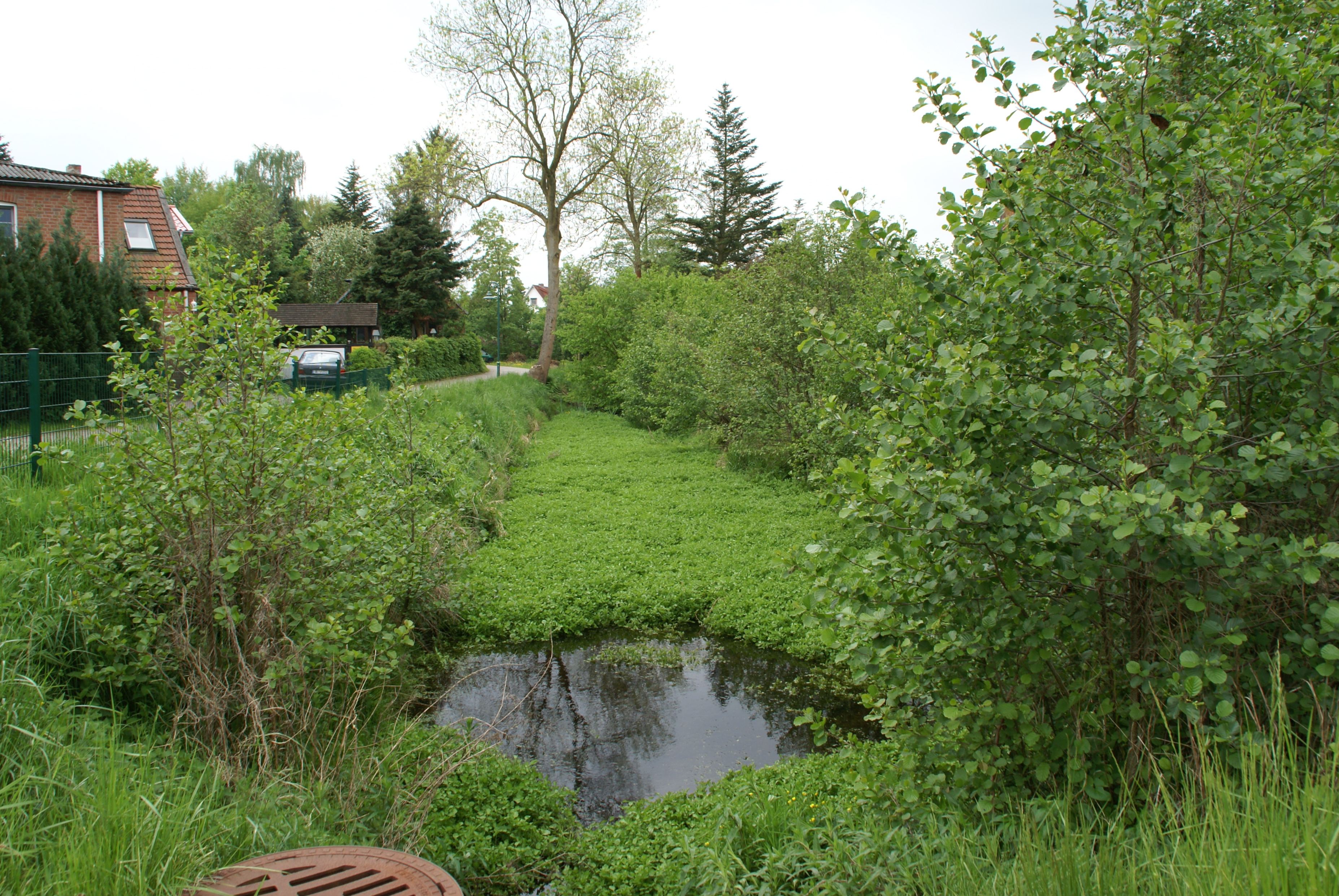 Sülfeld, Germany: The canal Alster-Beste filled up with mud